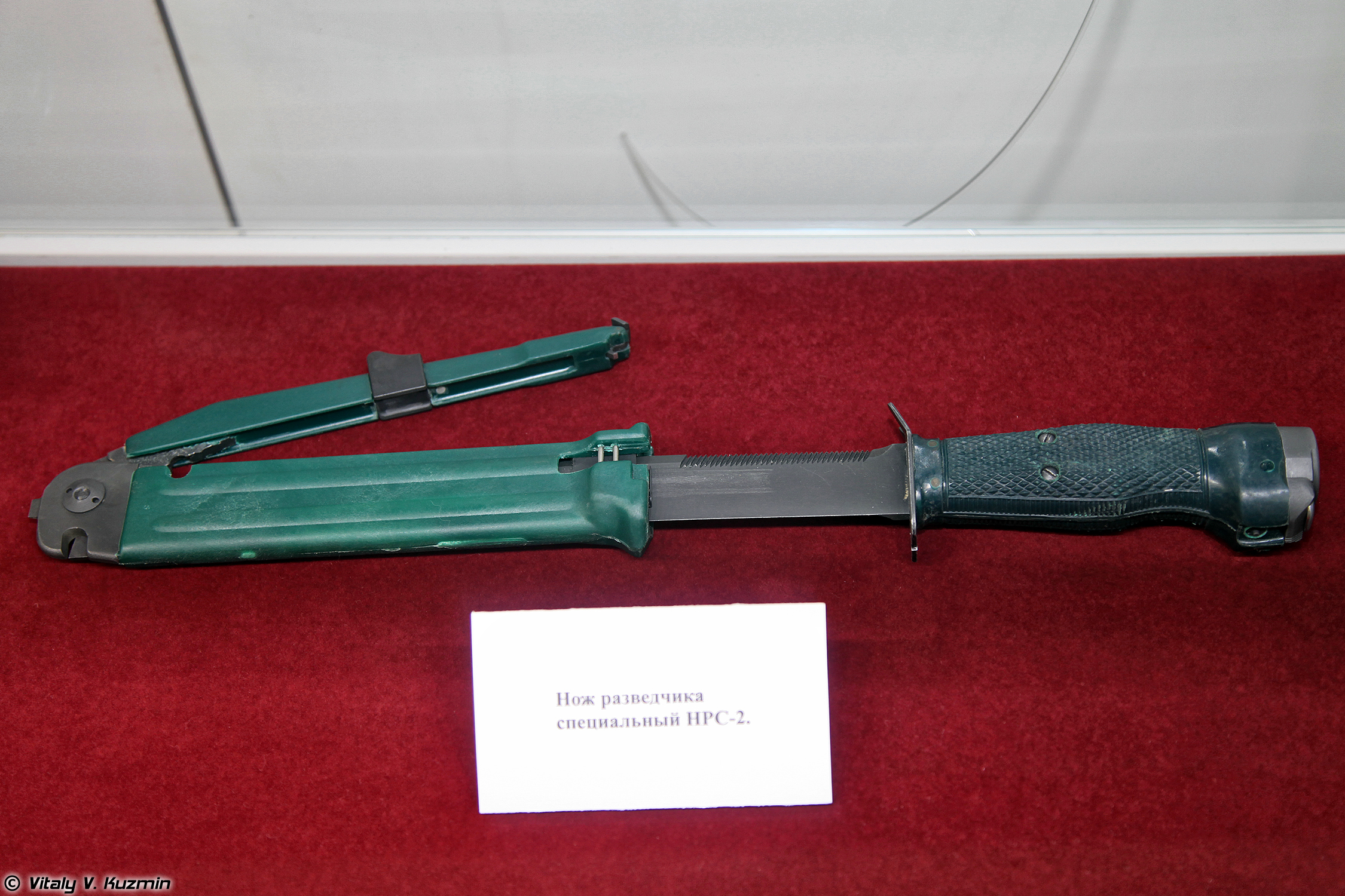 NRS-2 knife - Tula State Museum of Weapons